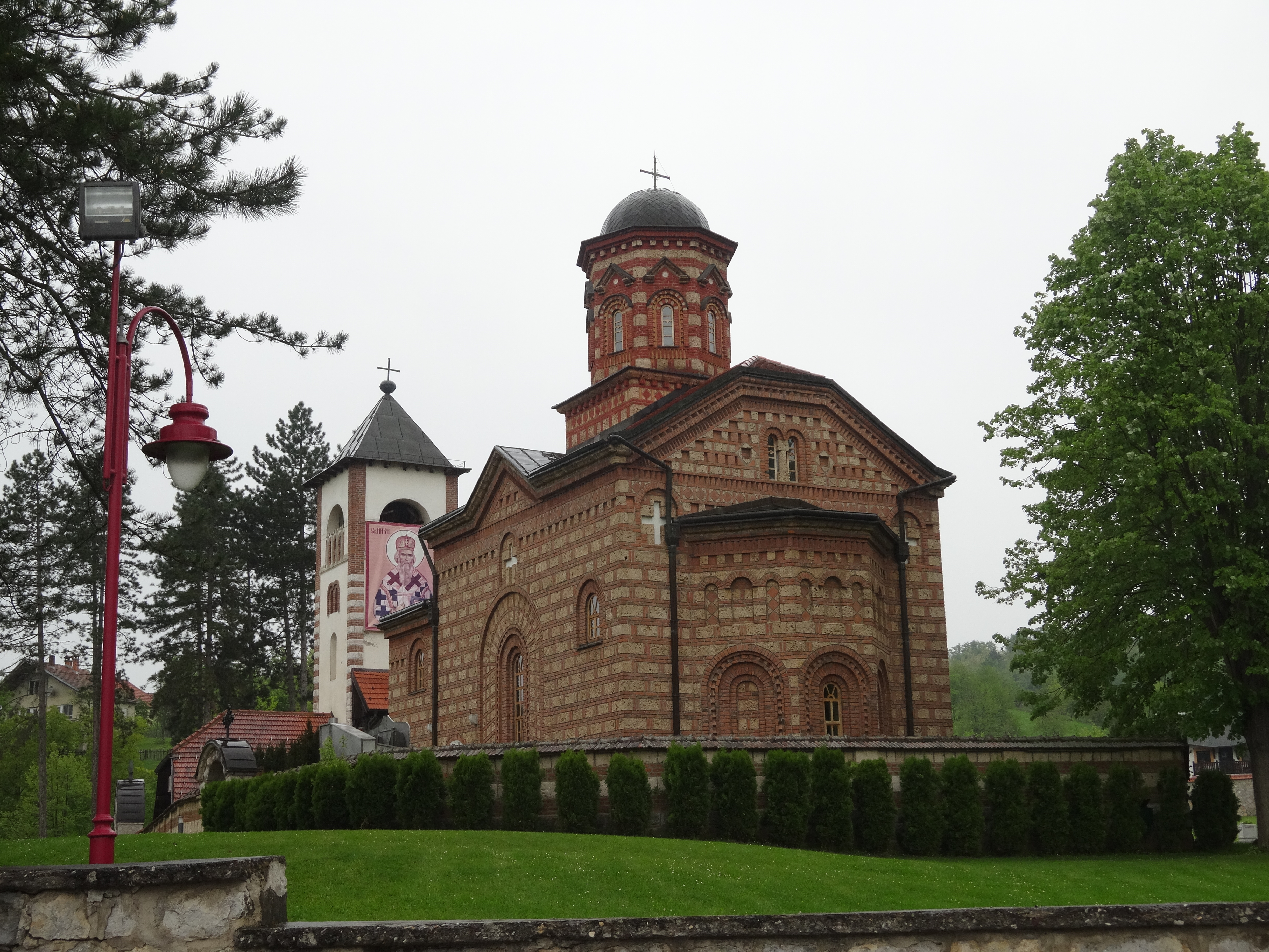 Lelić Monastery in Valjevo, Serbia.